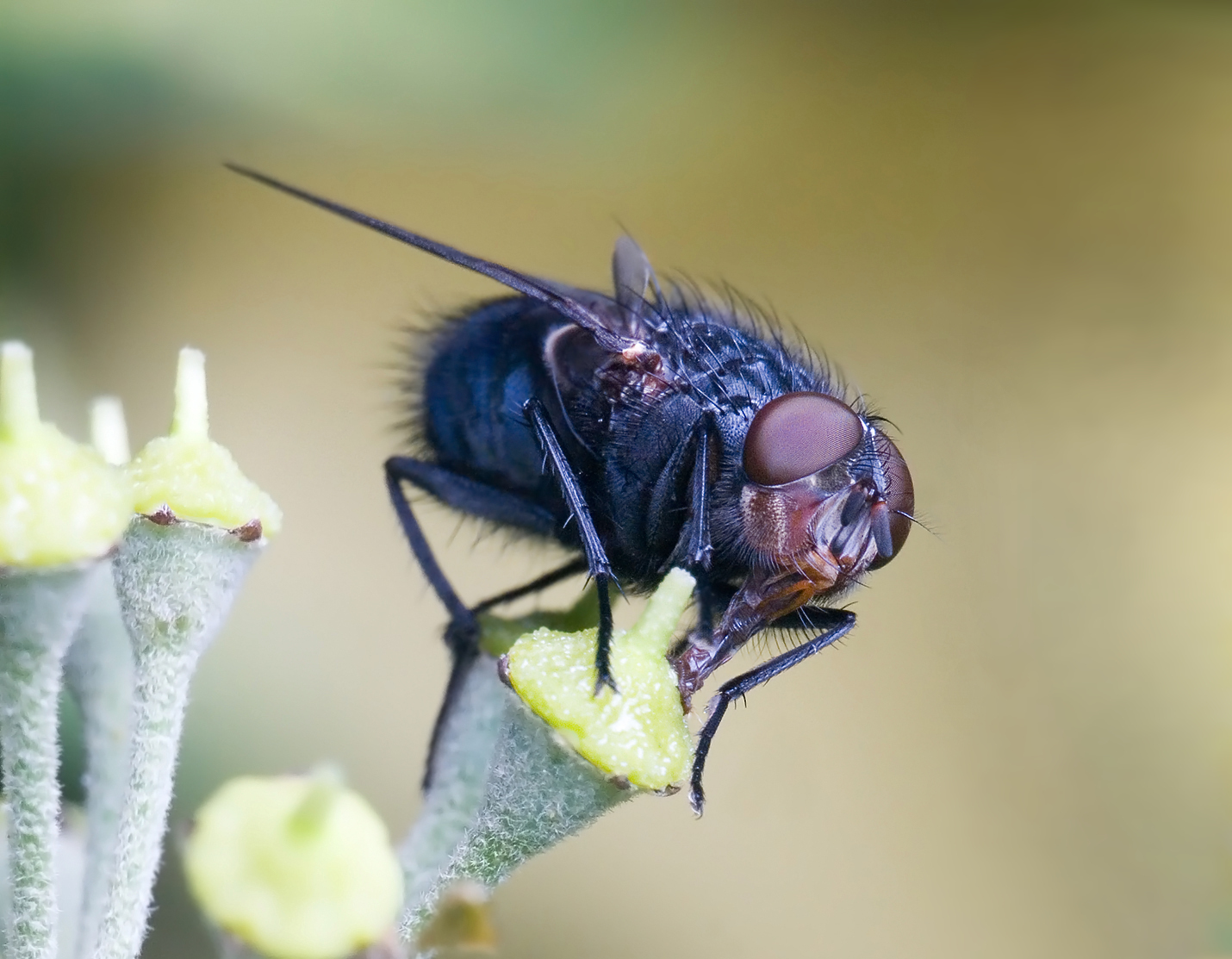 Bluebottle fly (Calliphora vomitoria) Camera data Camera Canon EOS 400D Lens Canon EF 70-200mm f4L w/ 36mm + 24mm + 12mm extension tubes Flash Shoot Through Umbrella Above Focal length 172 mm Aperture f/11 Exposure time 1/200 s Sensivity ISO 100